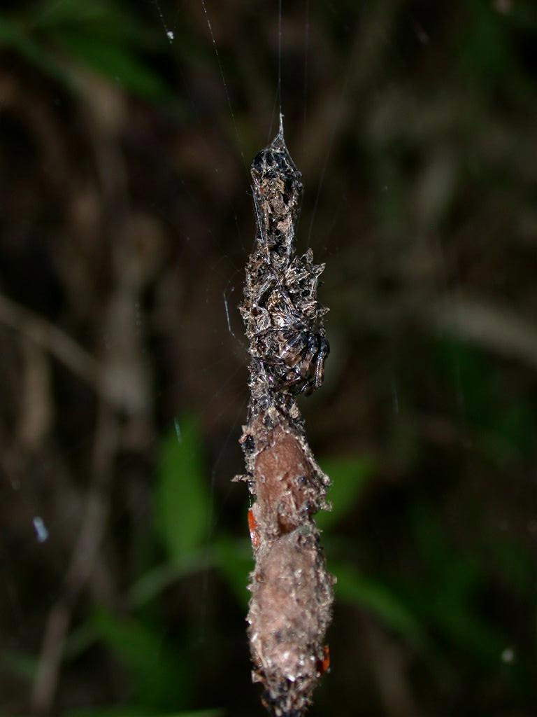 Name Cyclosa octotuberulata (Argiopidae,Araneae,Arthropoda) Female with egg sac Date;2003,06,Tanabe city, Wakayama prefecture, Japan Author;Keisotyo